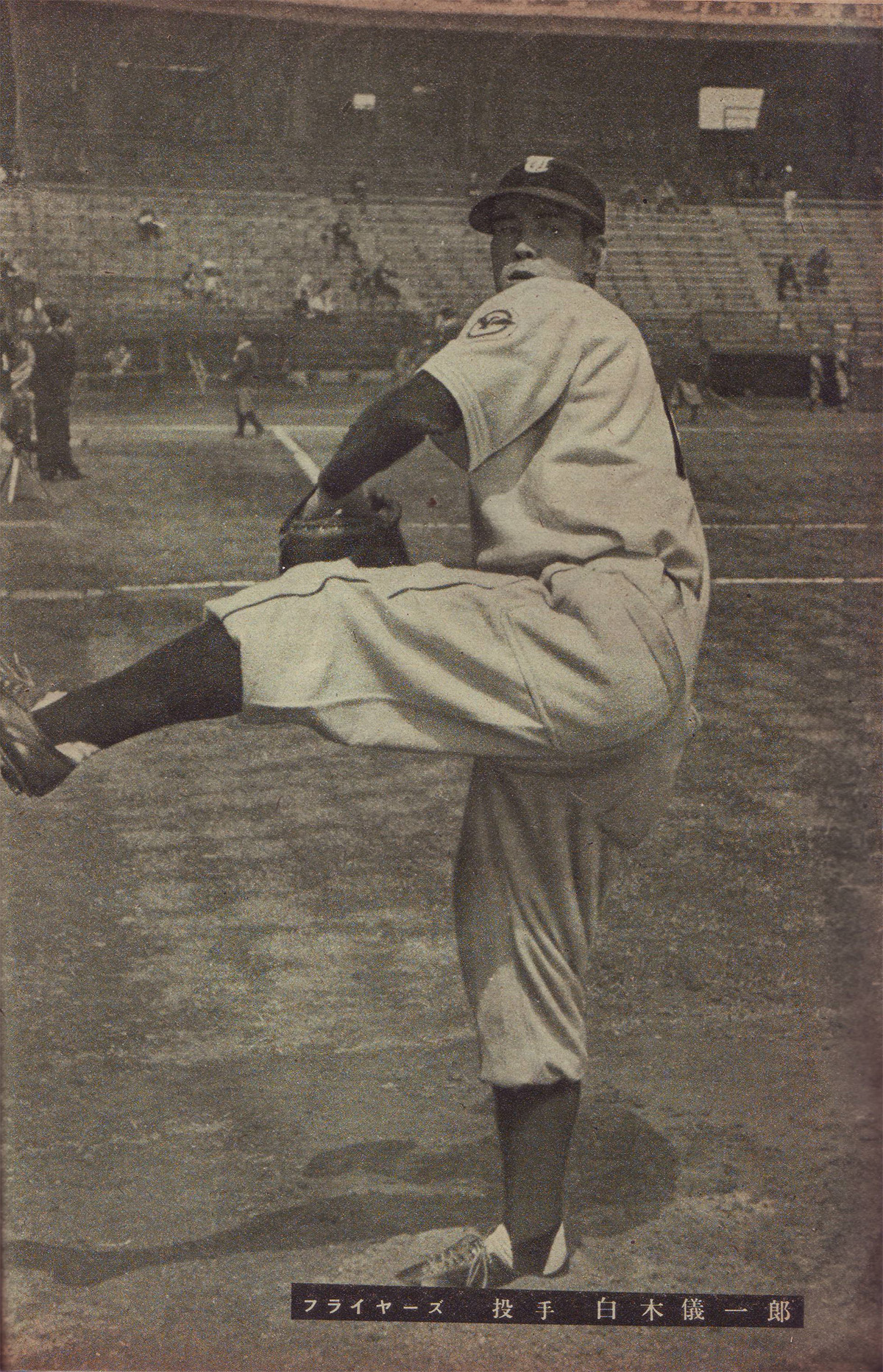 Giichiro Shiraki (Tokyu Flyers). taken in 1950.